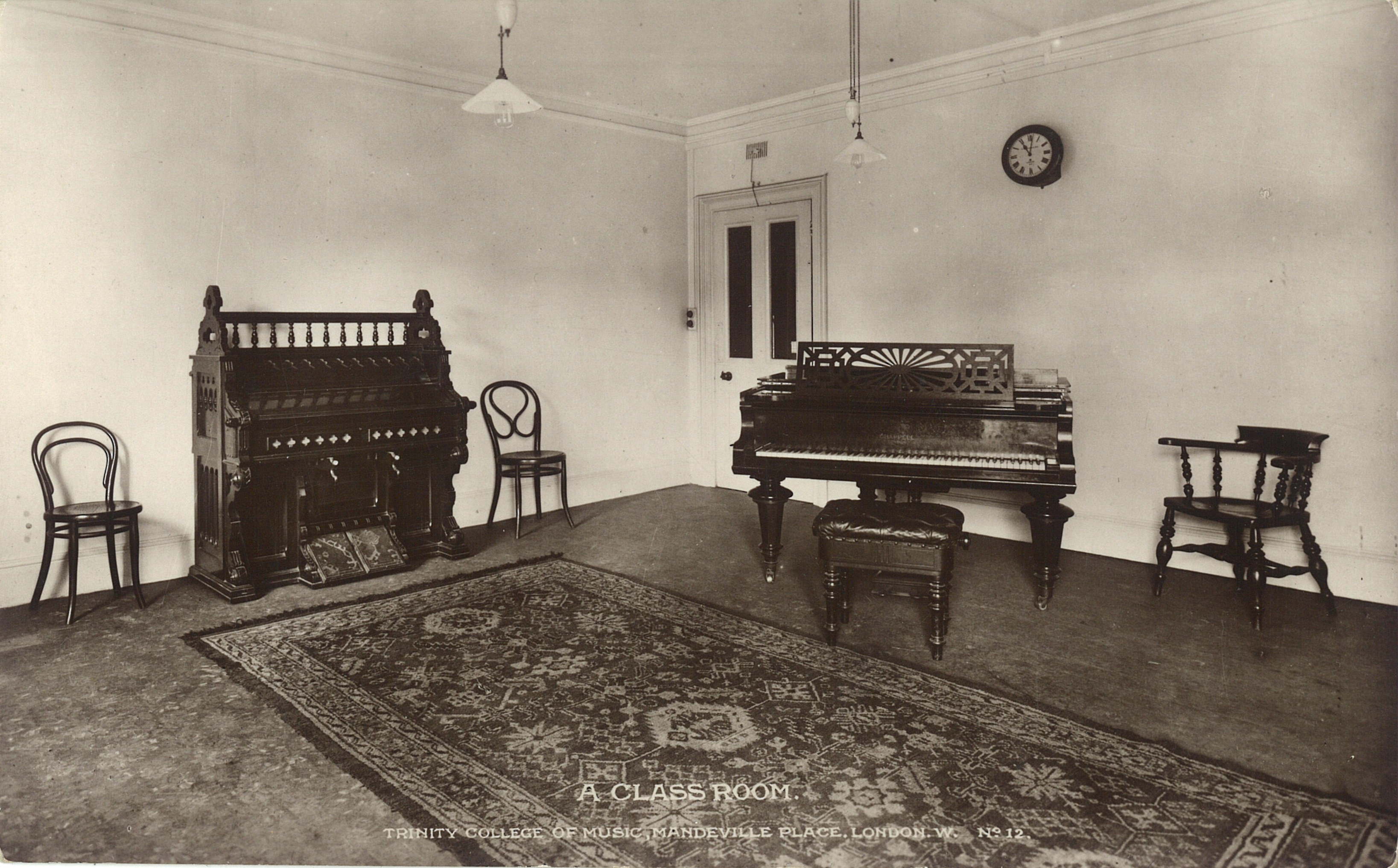 Maker: unknown Date: [1922] Catalogue ref: TCM 12/6/3